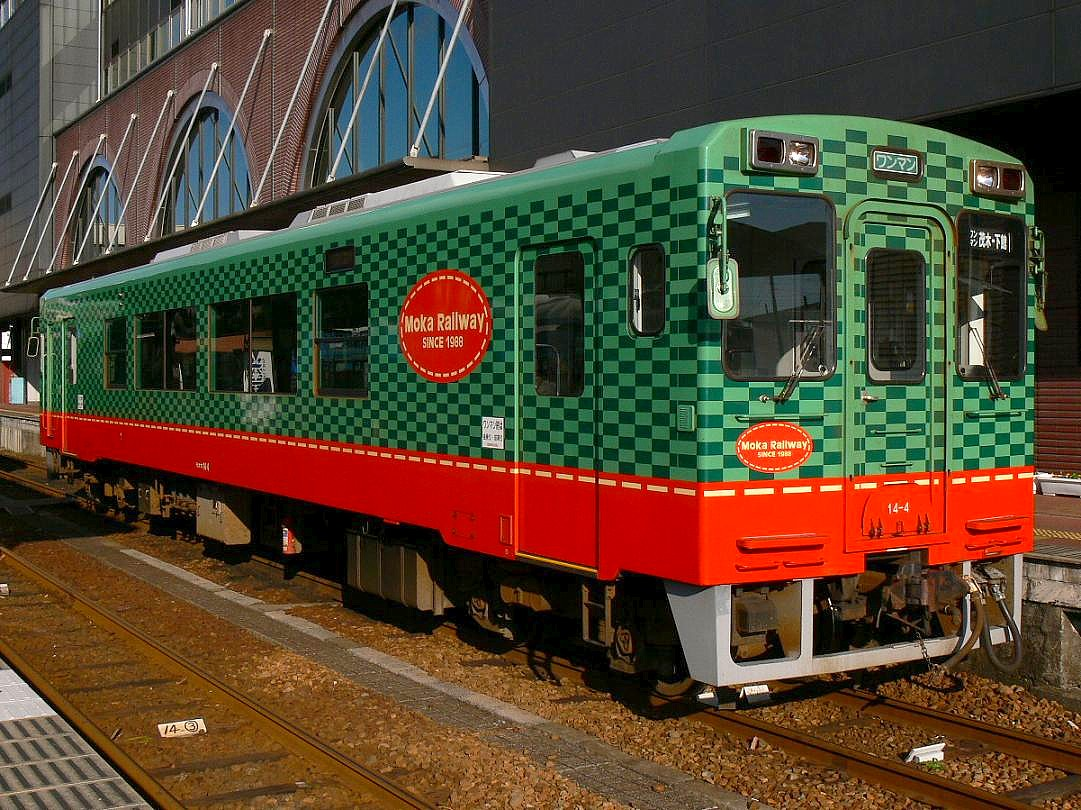 Moka Railway Type Moka14 Diesel railcar.